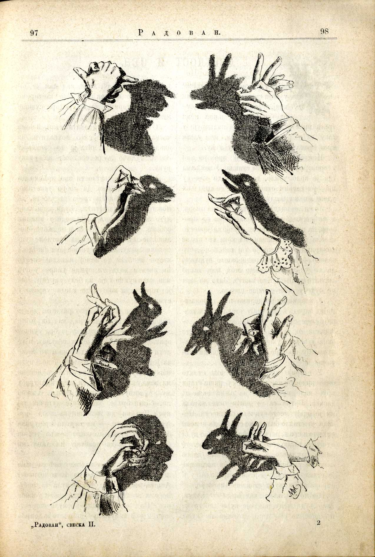 Radovan, magazine, picture from number 2, Novi Sad